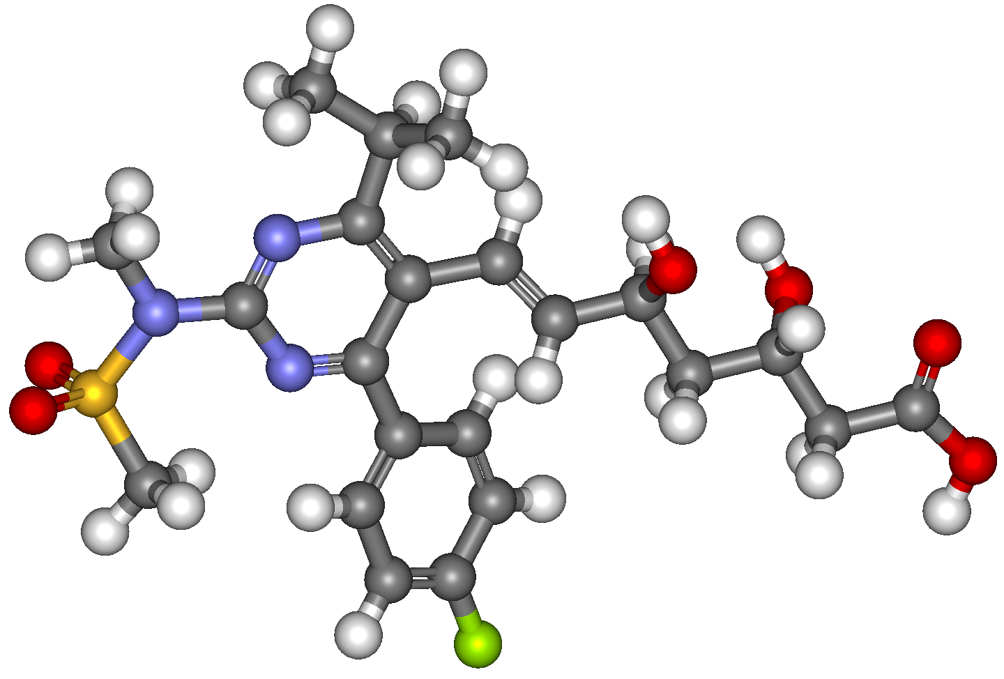 3D model of anti-cholesterol drug Rosuvastatin, also known as Crestor.